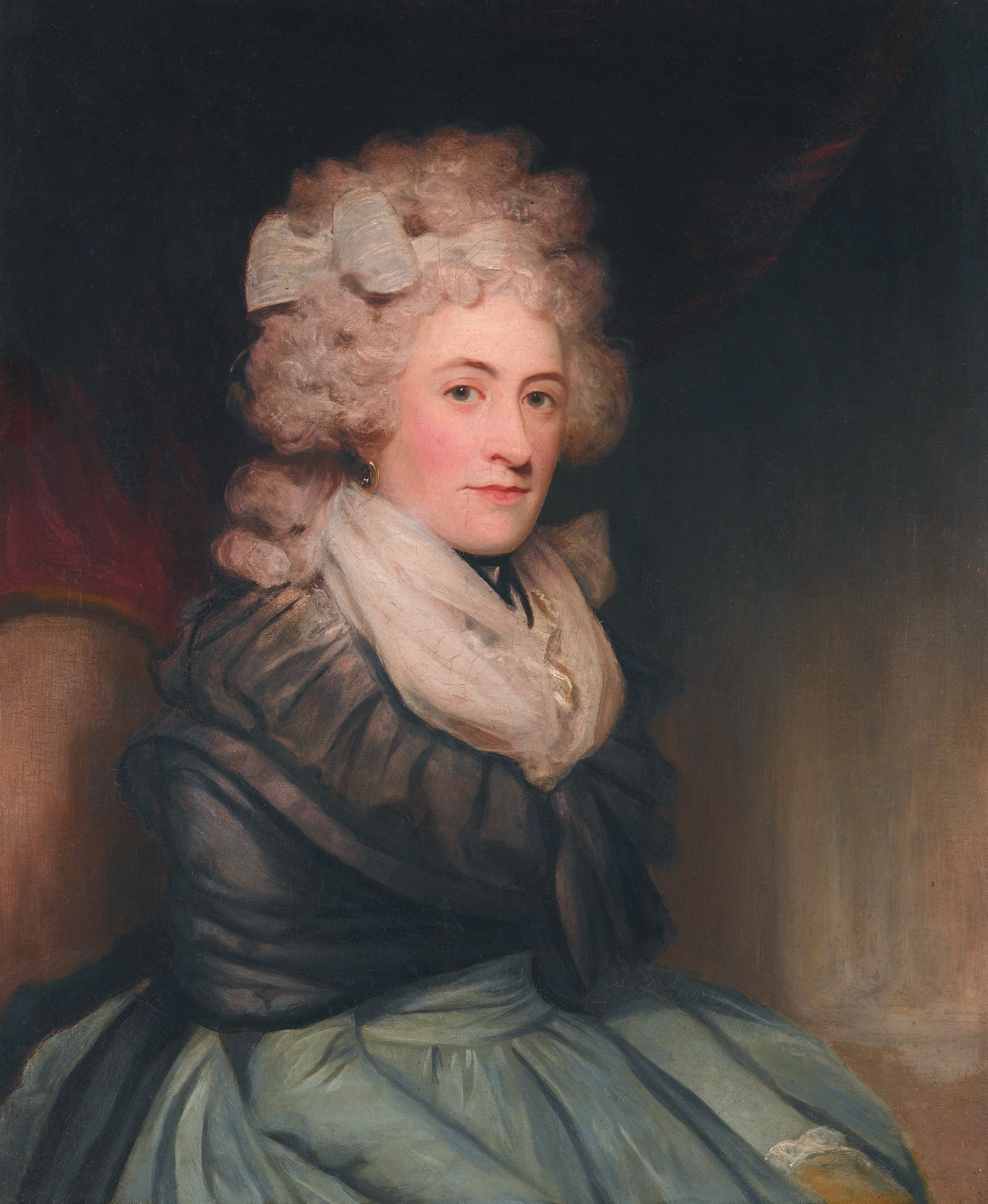 Emilia Charlotte Lennox (d. 1832) oil on canvas 76.2 by 63.5 cm